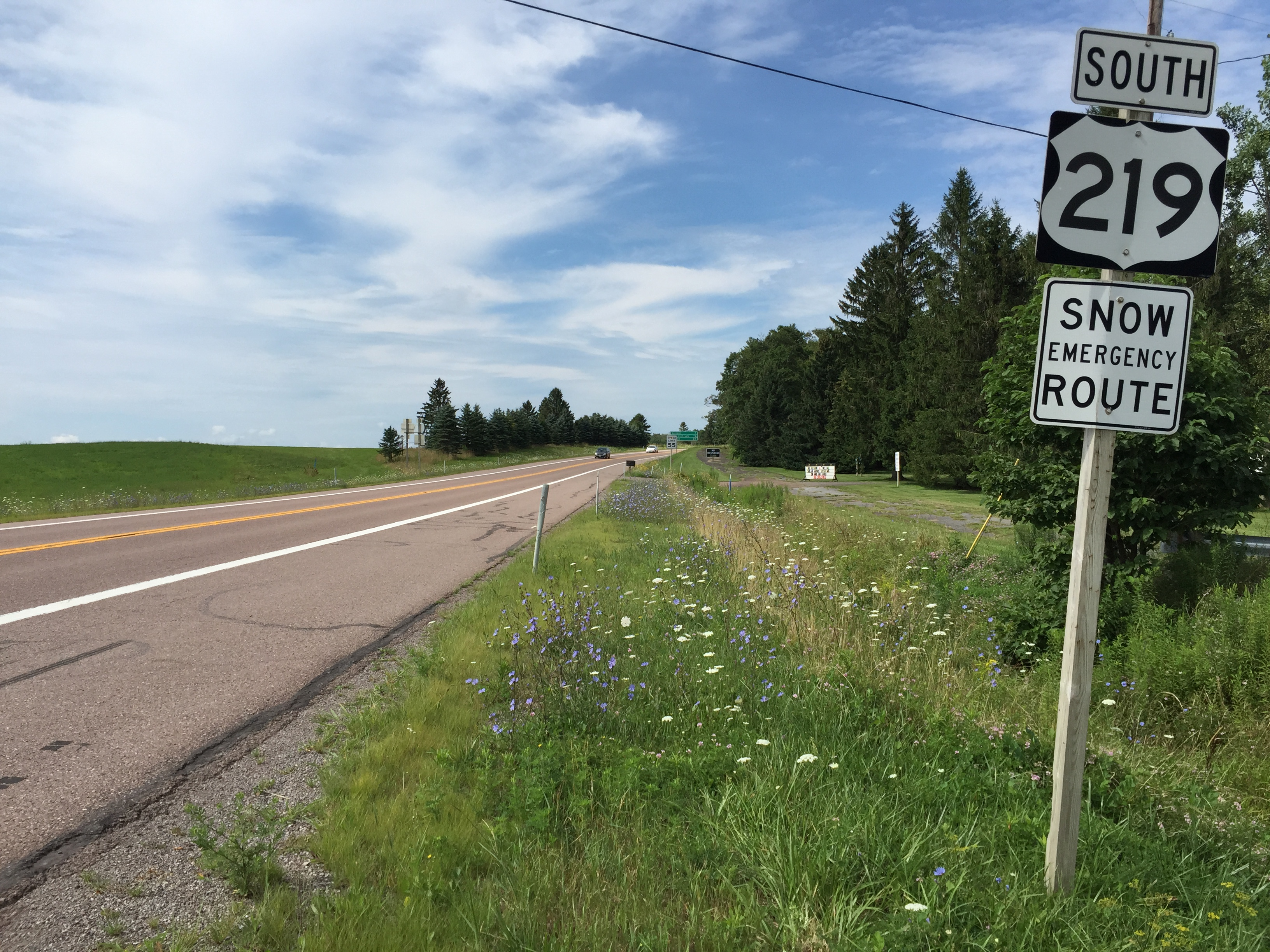 View south along U.S. Route 219 (Garrett Highway) at Devils Half Acre Road in Keysers Ridge, Garrett County, Maryland